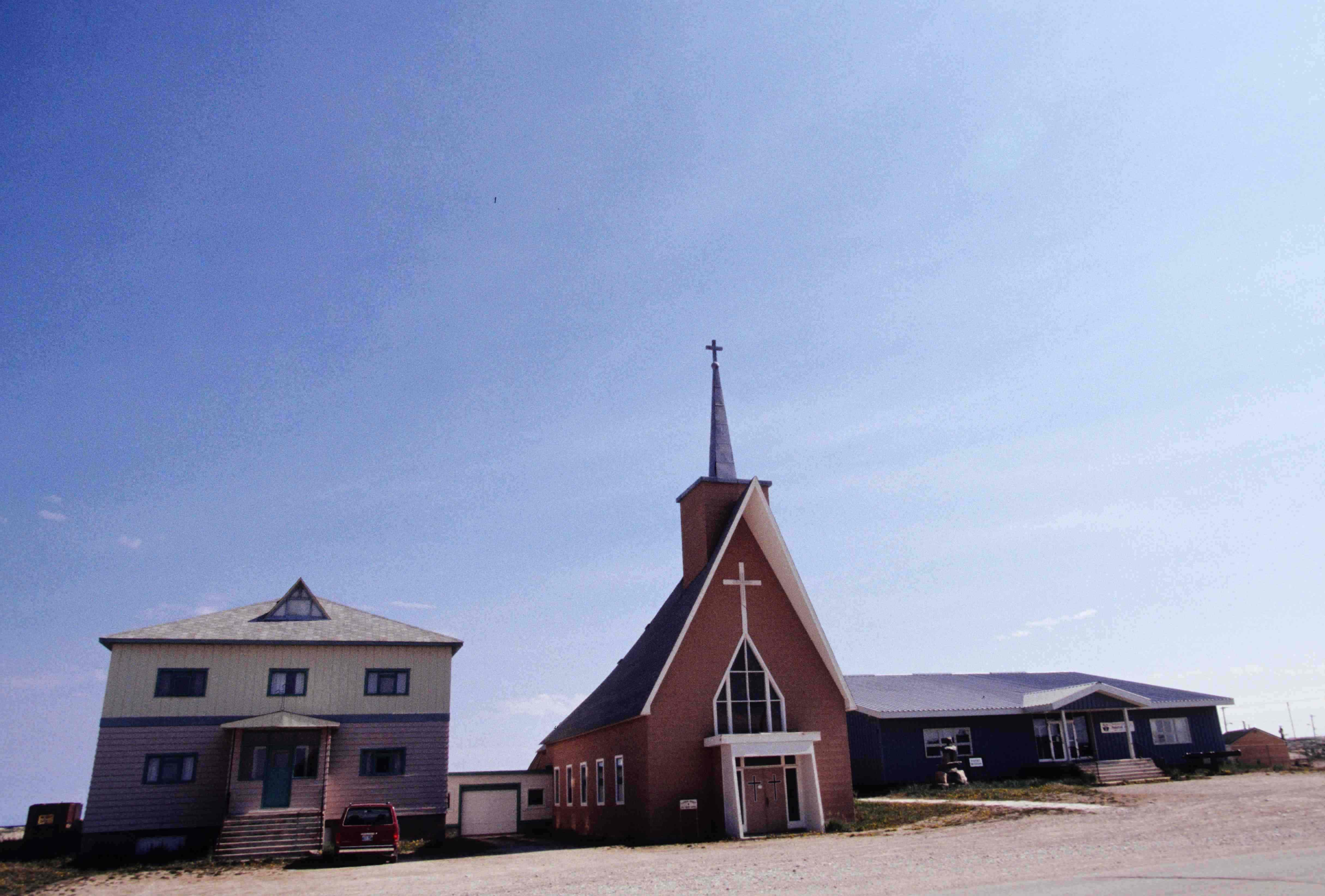 Churchill, Manitoba, Canada: Roman Catholic Cathedral and Diocese Center